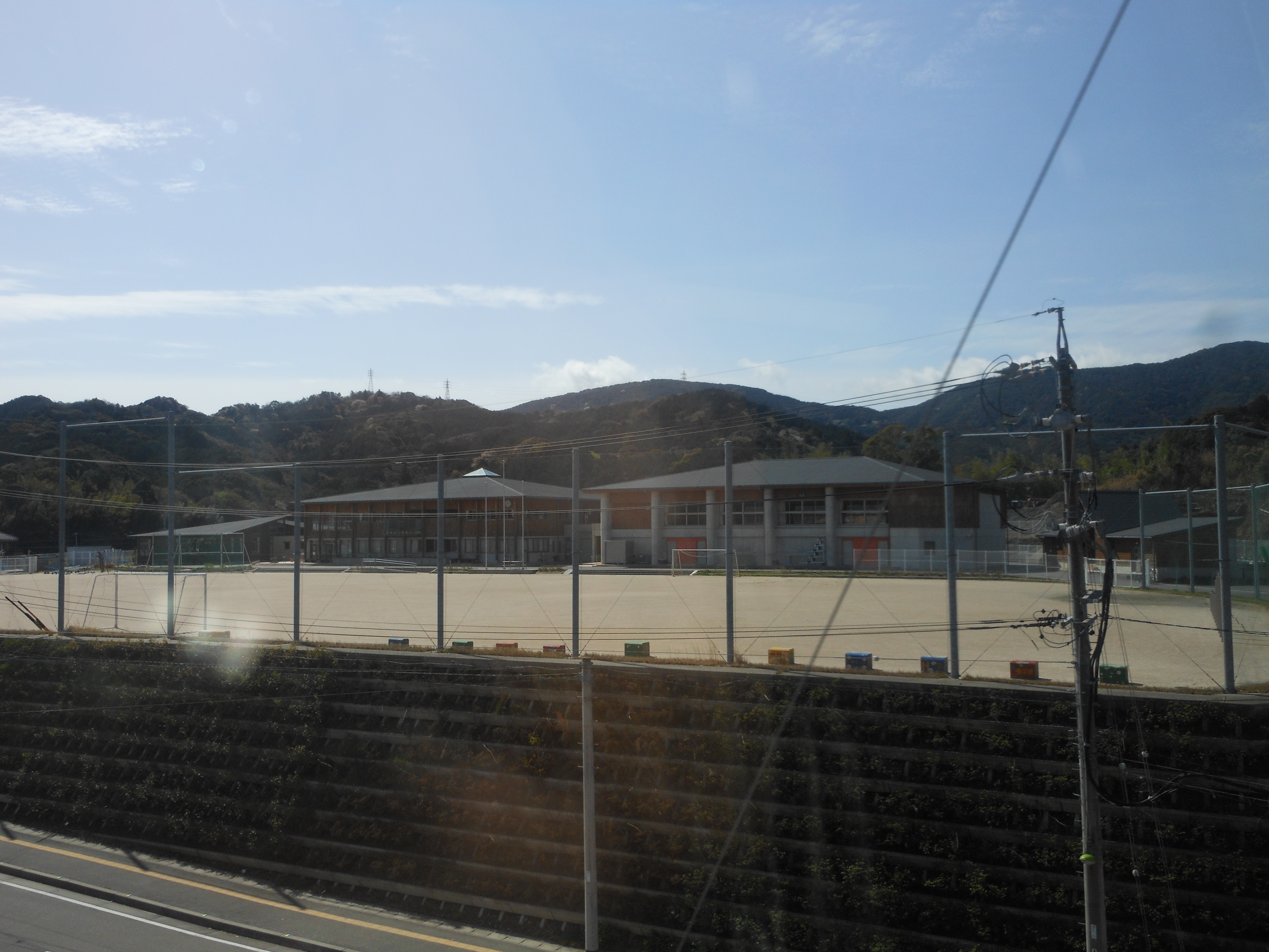 This is Toba city Toba elementary school in Toba, Mie, Japan. This is a new school building which has used since 2009.